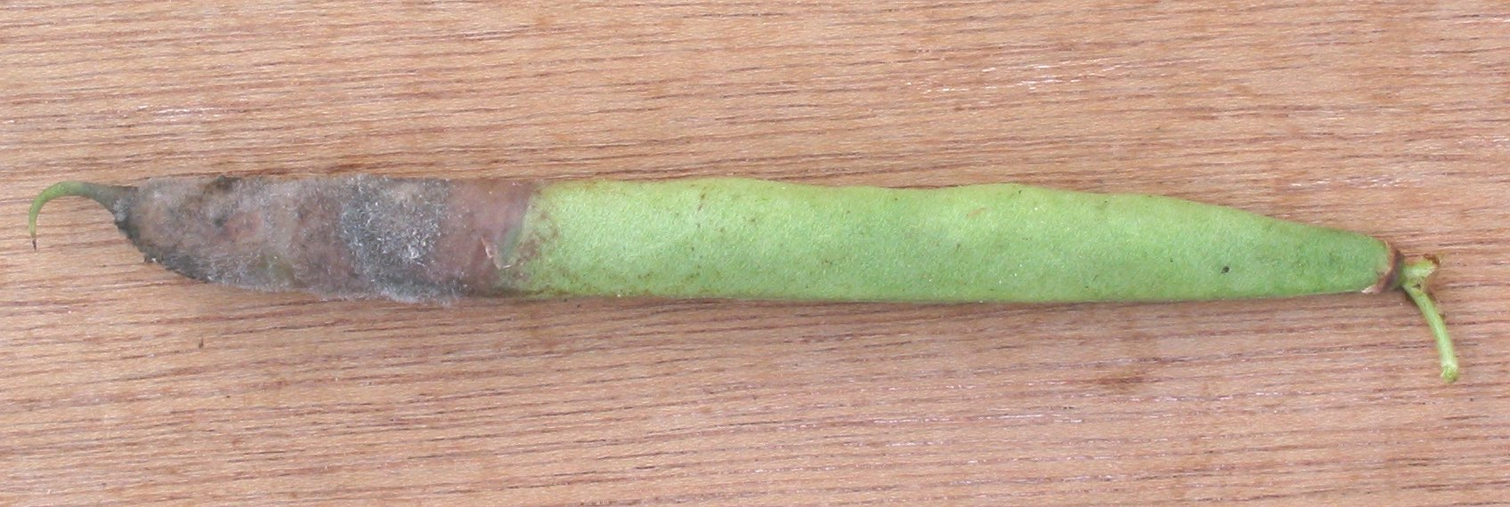 (nl: Stamboon met Grauwe schimmel) Phaseolus vulgaris with Botrytis cinerea